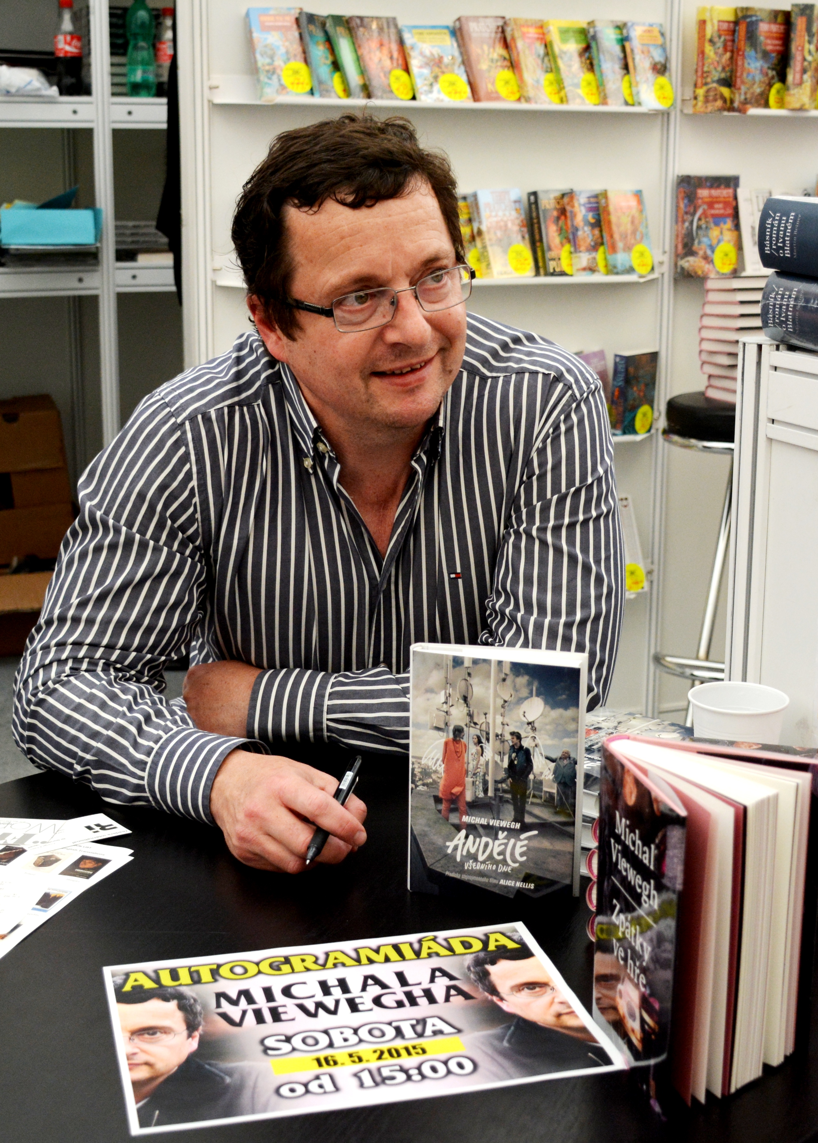 Michal Viewegh, Czech writer